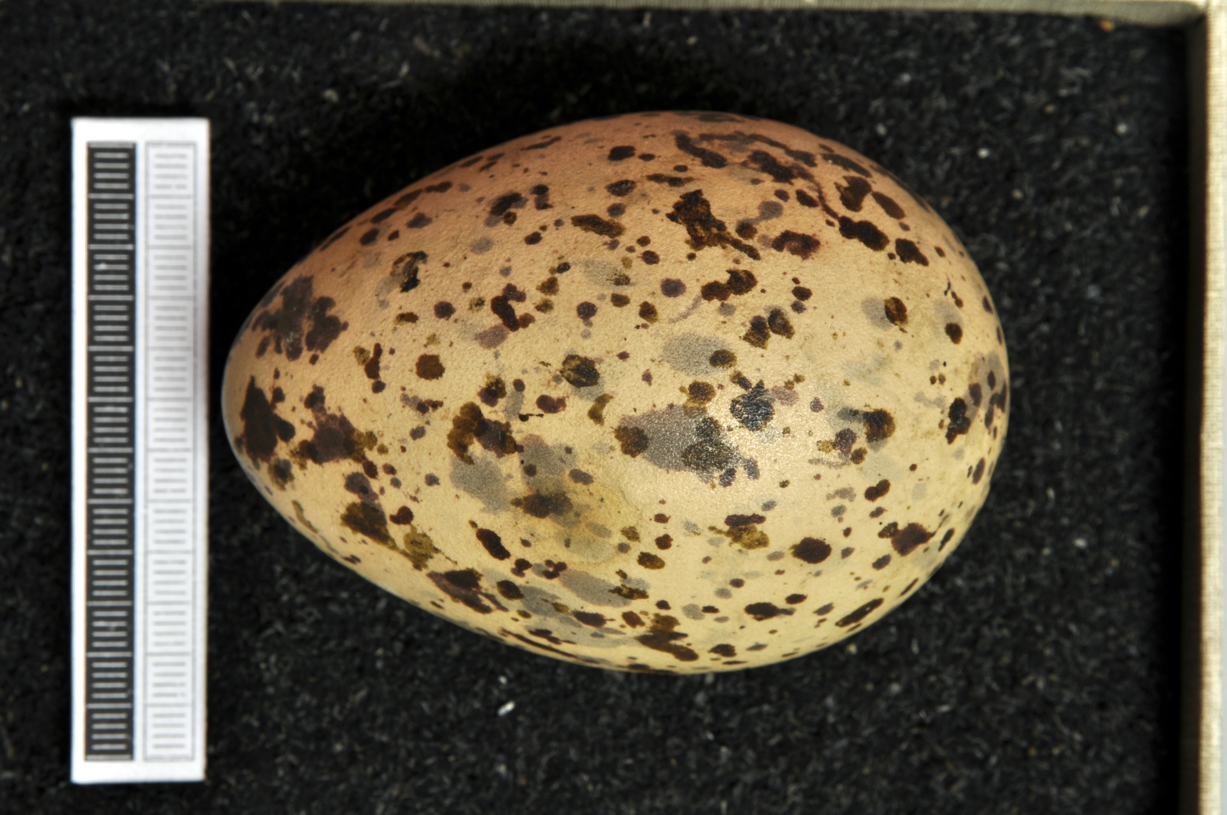 Pallas's gull Larus ichthyaetus , egg, Coll. Museum Wiesbaden